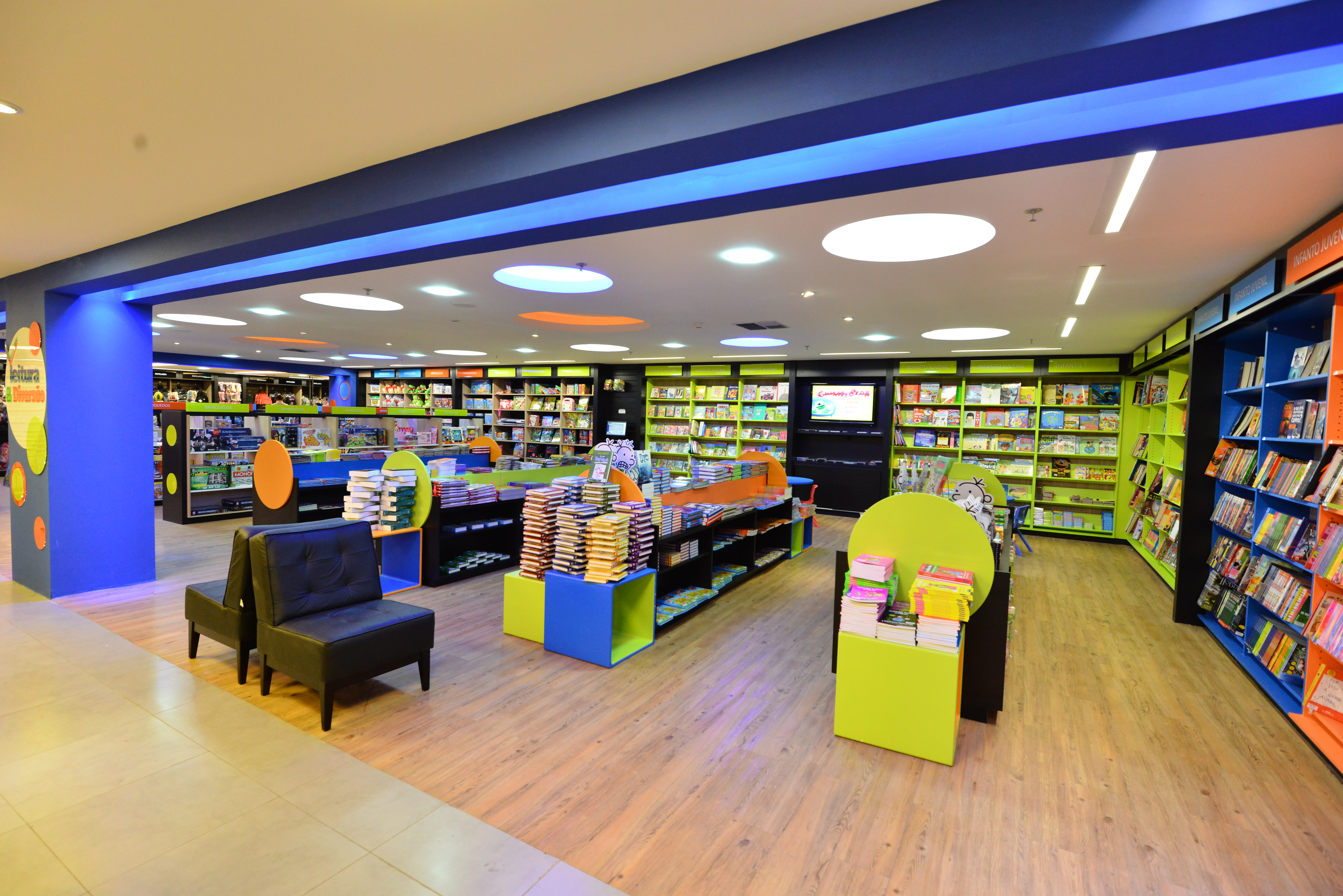 Children area of the Leitura Bookstore in the city of São Luís, Brazil.